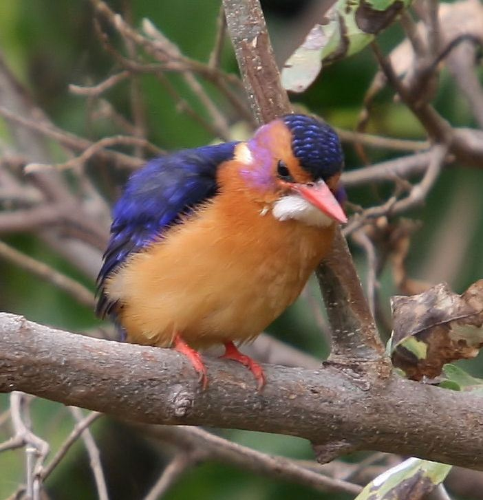 African Pygmy Kingfisher (Ispidina picta or Ceyx pictus), picture taken at Lake Manyara Nationalpark, Tanzania